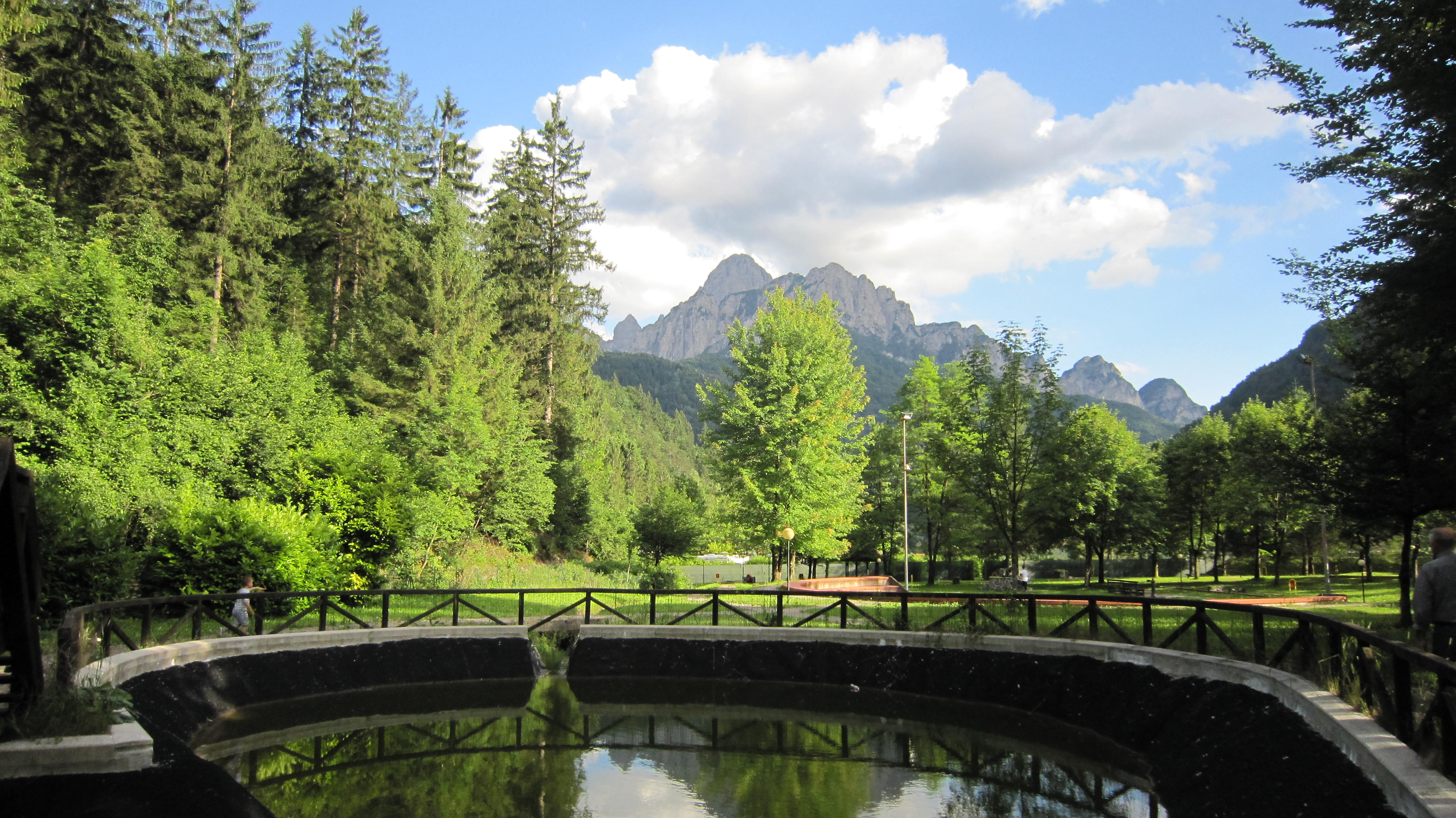 paularo saletti